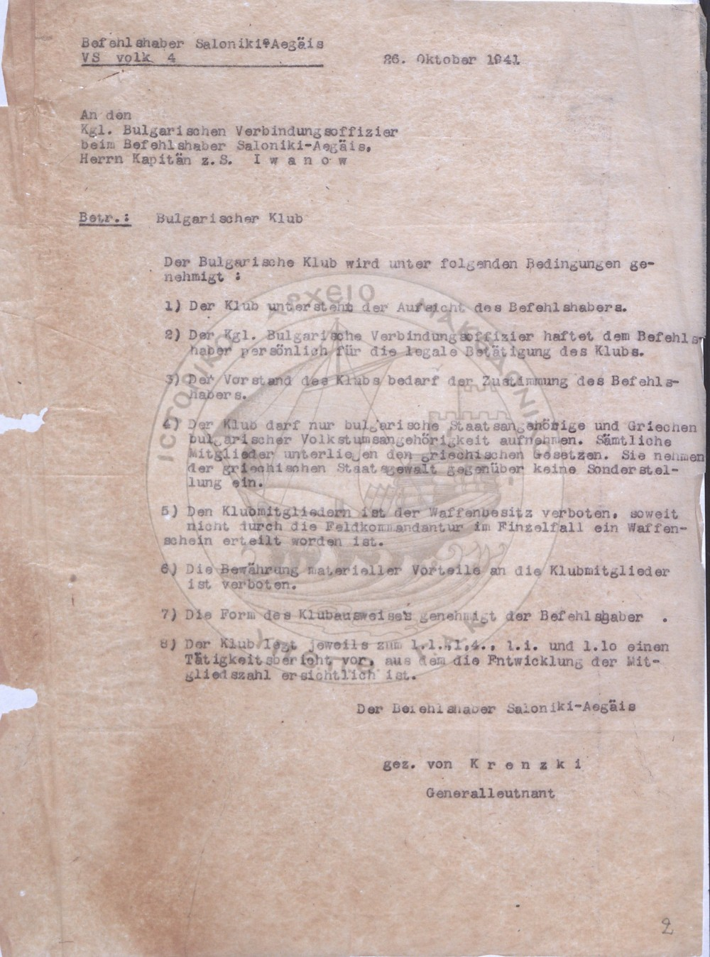 Curt von Krenzki Document 26 October 1941